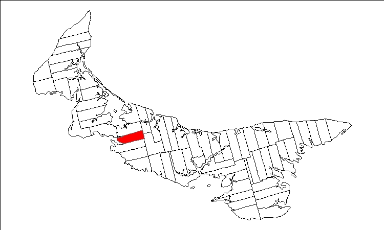 Public domain map of Prince Edward Island created by User:Plasma east with data courtesy of Geogratis, modified to show townships. Released under GFDL (self).